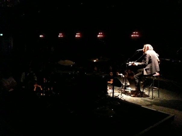 LeBlanc performing at the El Rey Theatre in Los Angeles